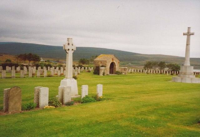 Lyness Royal Naval Cemetery, Hoy, Orkney. This Cemetery was begun in 1915 when Lyness was a Naval Base and home of the Grand Fleet. There are 439 Commonwealth burials of the First World War and 200 from the Second World War. The cemetery also contains the graves of 14 German sailors lost when the German High Seas Fleet was scuttled in Scapa Flow in June 1919.